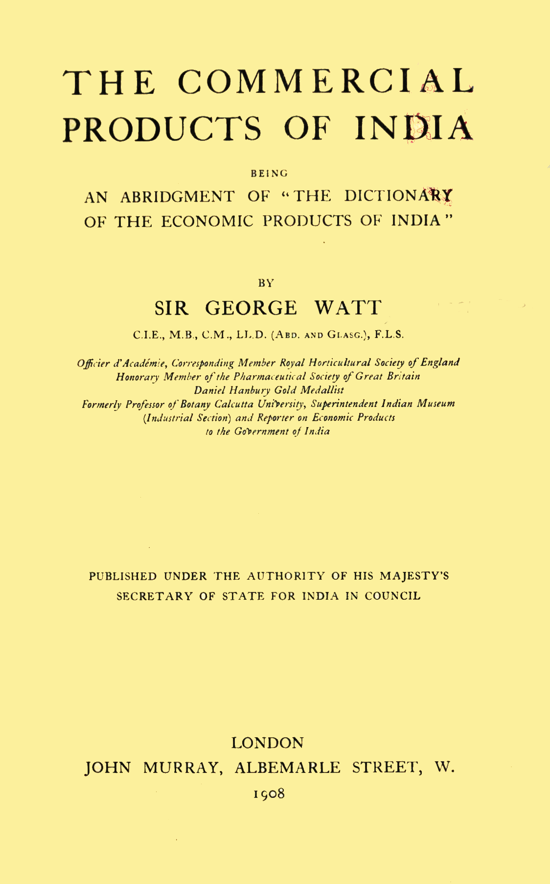 Title page of George Watt's 1908 book on the Commercial Products of India